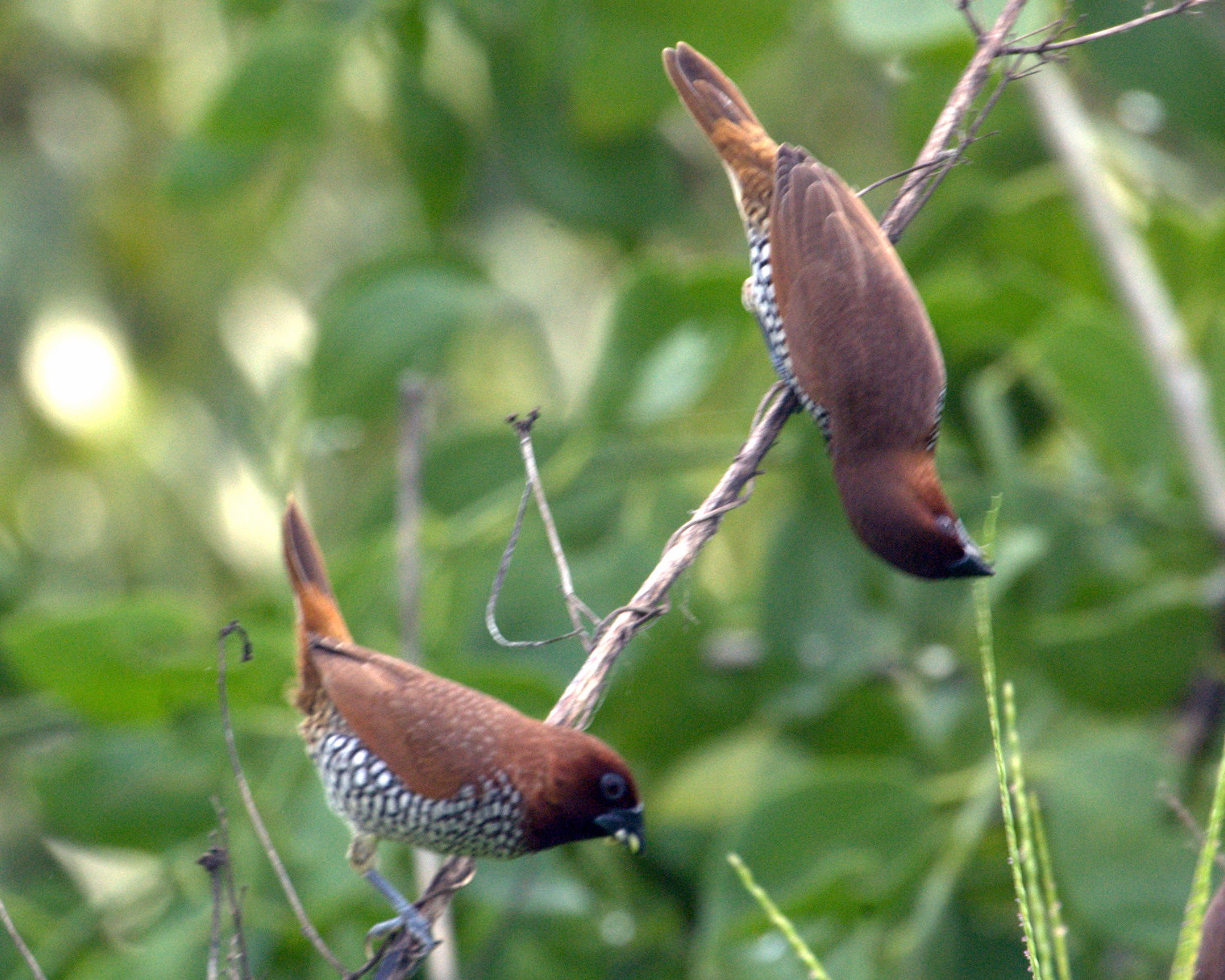 Scaly Breasted Munia